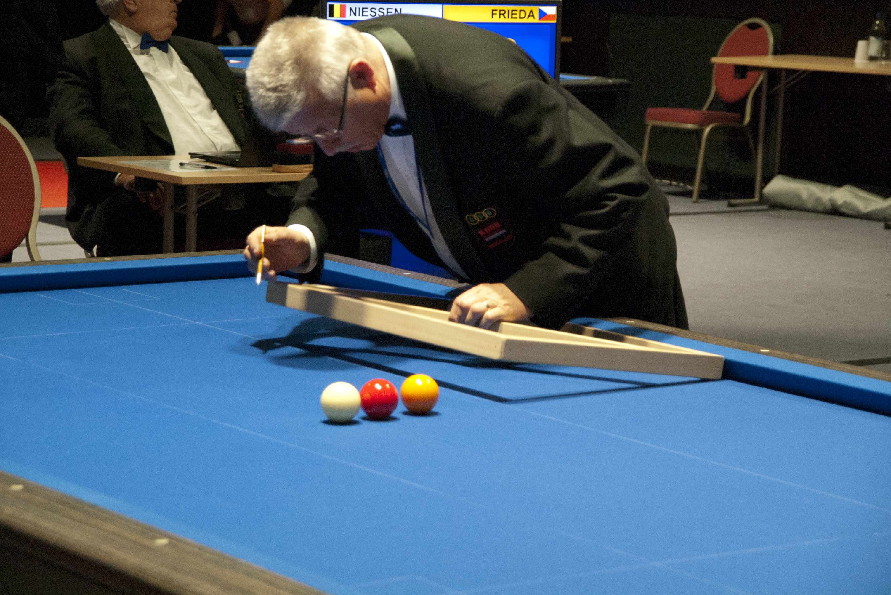 Refferee marks Balkline 47.2